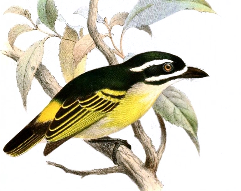 Yellow-throated Tinkerbird; and Barbatula bilineata = Pogoniulus bilineatus, Yellow-rumped Tinkerbird